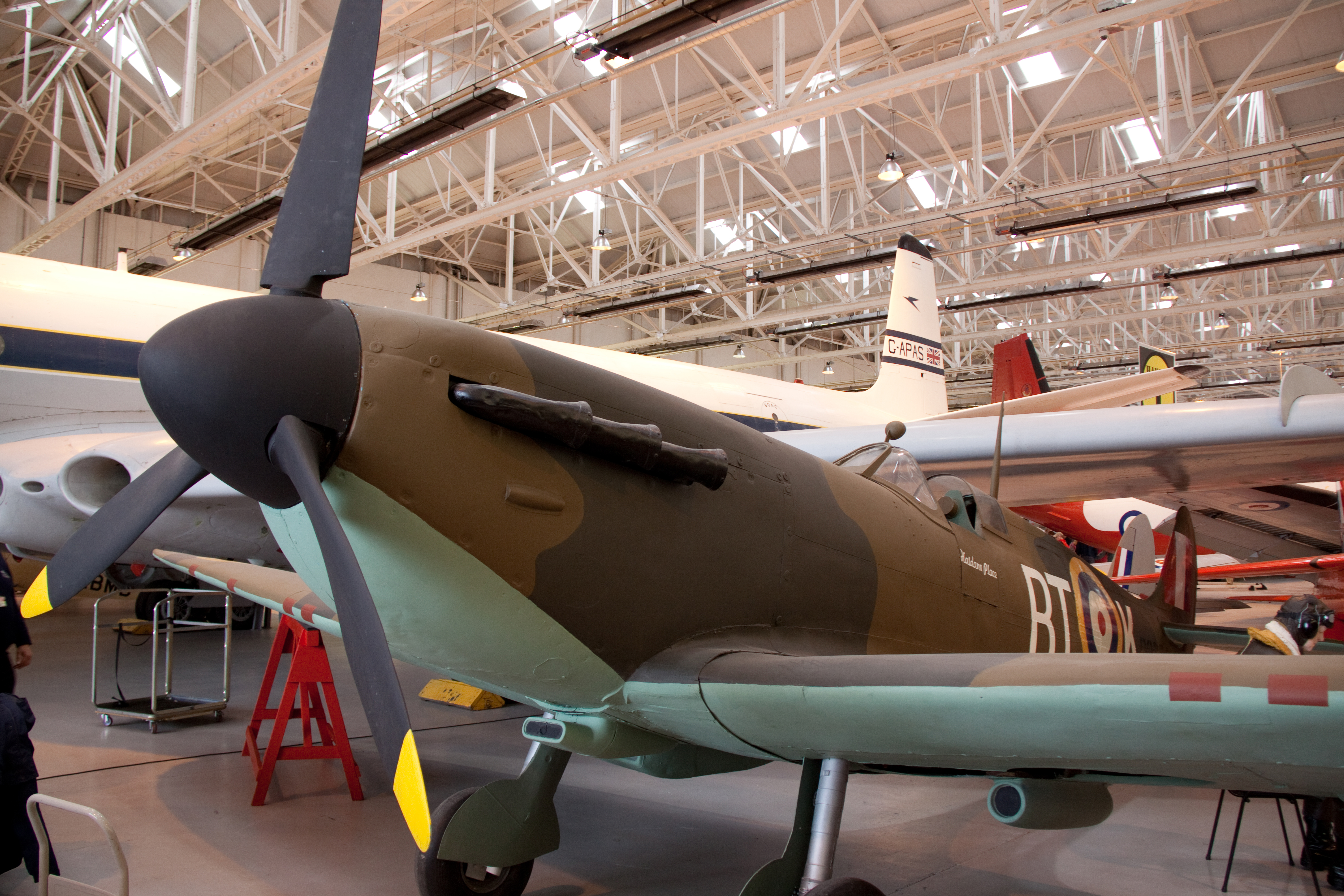 James May Airfix Sptifire 2